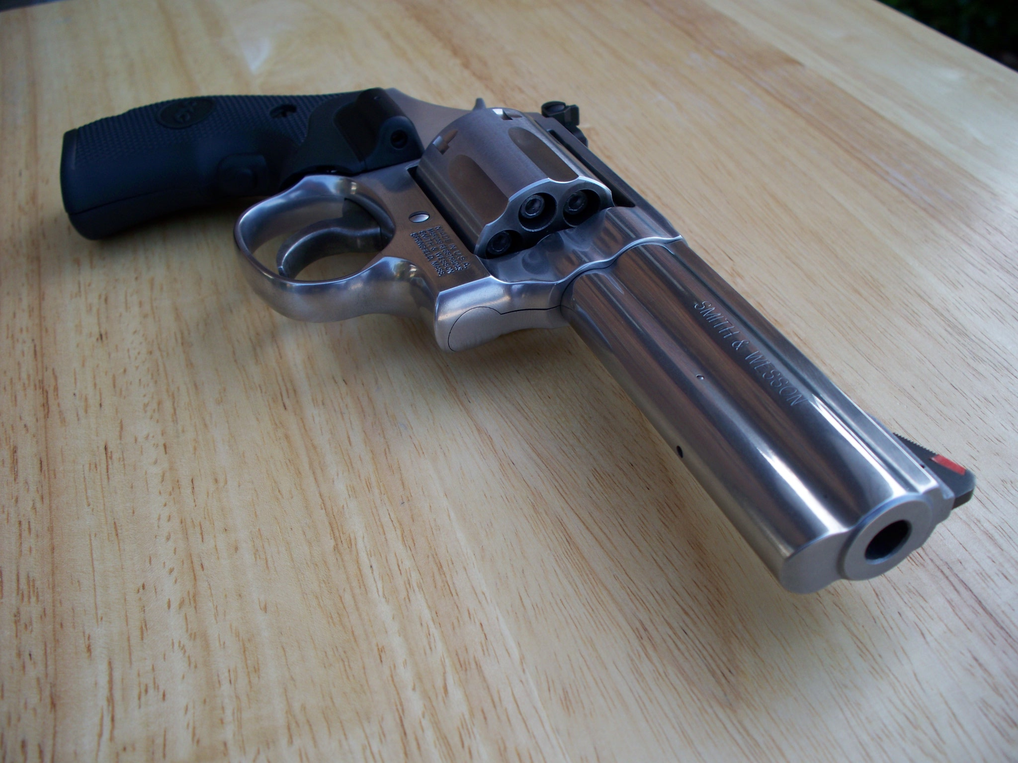 Smith & Wesson, Model 686 Plus Medium L Frame, Caliber .357 Magnum, Action: Single/Double Action, Capacity 7 rounds. Equipped with Crimson Trace laser grip.